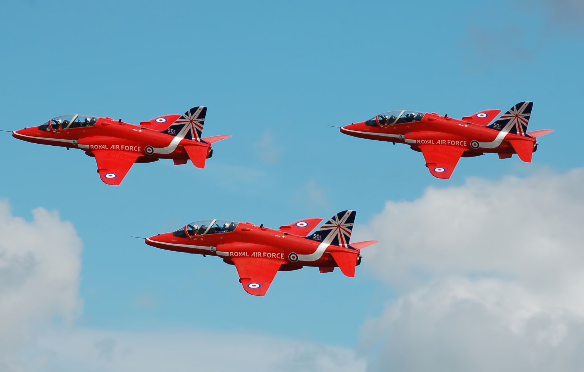 The RAF Red Arrows aerobatic display team depart Fairford, England, after the 2014 Royal International Air Tattoo. They are in a colour scheme that commemorates their 50th year.